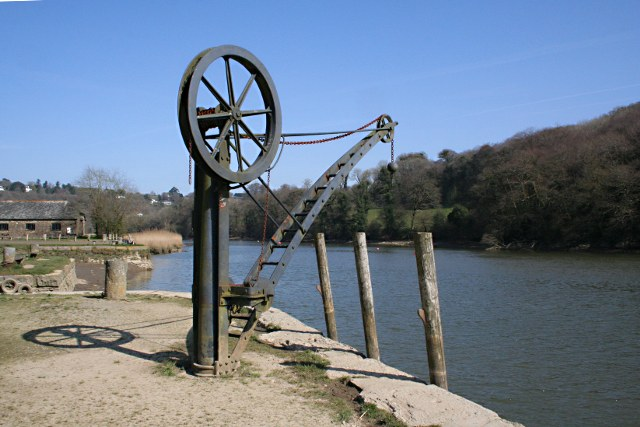 Crane on Cotehele Quay Looking up river from the quayside.